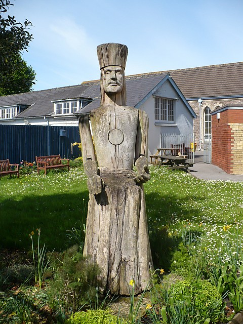 Wood carving of King Arthur, Caerleon Large wooden carvings can be found all over Caerleon. This one of King Arthur was sculptured by Sarka Vachova from the Czech Republic at the Caerleon Sculpture Symposium in 2003. Situated next to the Charity School .